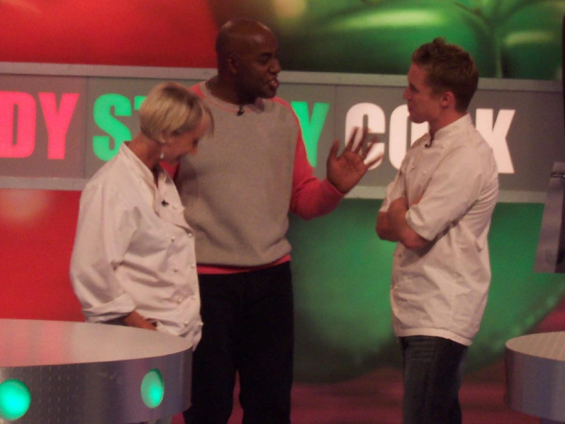 During the recording session of Ready Steady Cook in the United Kingdom on August 15, 2004. The author of this image, Jerry Daykin took the photograph when watching the show live.